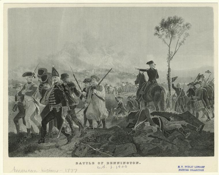 Print of the Battle of Bennington [Vermont], 1777. Courtesy of the New York Public Library Digital Collection